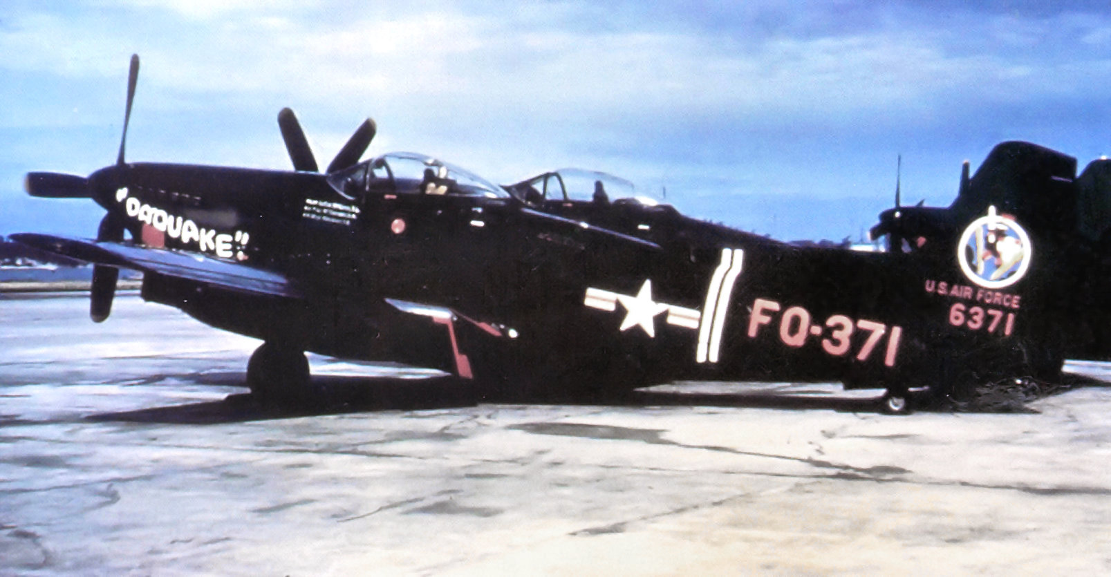 F-82G Twin Mustang 46-371, 68th Fighter Squadron, 1951